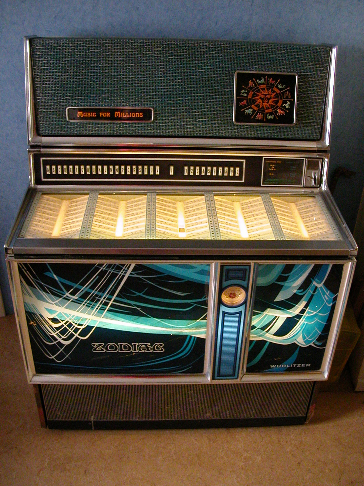 Wurlitzer 3500 "Zodiac" Juke-box from 1971. Lid closed and turned on